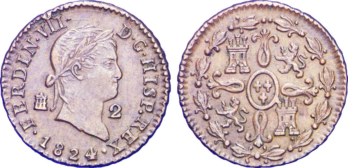 2 Maravedis à l'effigie de Ferdinand VII, 1824